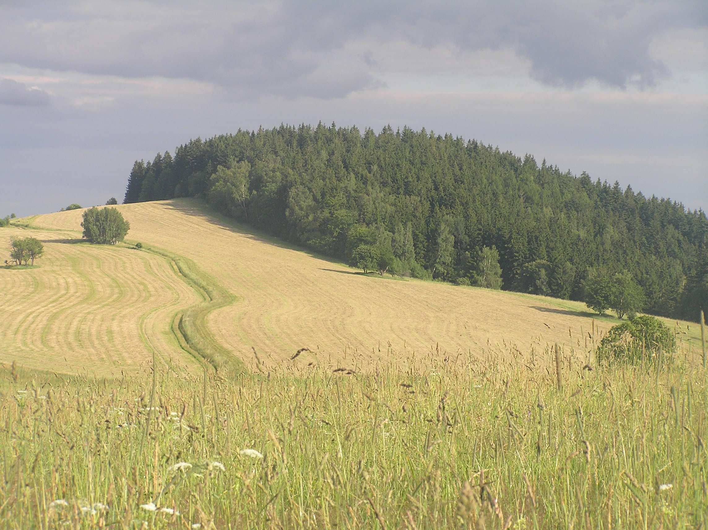 Větrovec, Králický Sněžník Mountains, Czech Republic